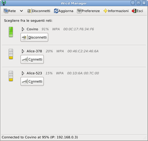 Screenshot of Wicd Manager for Linux (Italian).